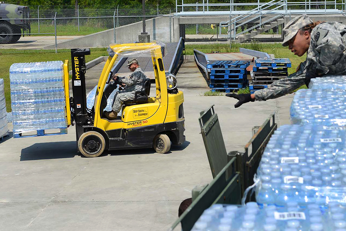 Louisiana National Guardsman Sgt. Denise Sonnier, a motor transport operator with the 1084th Transportation Co., reaches for a sidewall to secure a trailer full of water, while Sgt. Maj. (Ret.) James Serio, a Louisiana State Guard warehouse manager, stages pallets of water at Camp Villere in Slidell, La., June 5, 2015. The water and other supplies are being transported to Northwest Louisiana by the LANG in response to flooding along the Red River. (U.S. Army National Guard photo by Spc. Joshua Barnett, Louisiana National Guard Public Affairs Office/Released)